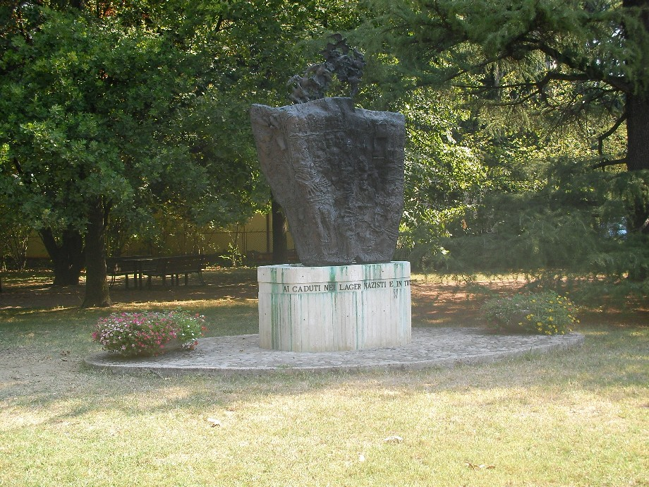 Monument to the fallen ones of the Nazi lagers and in all the imprisonments